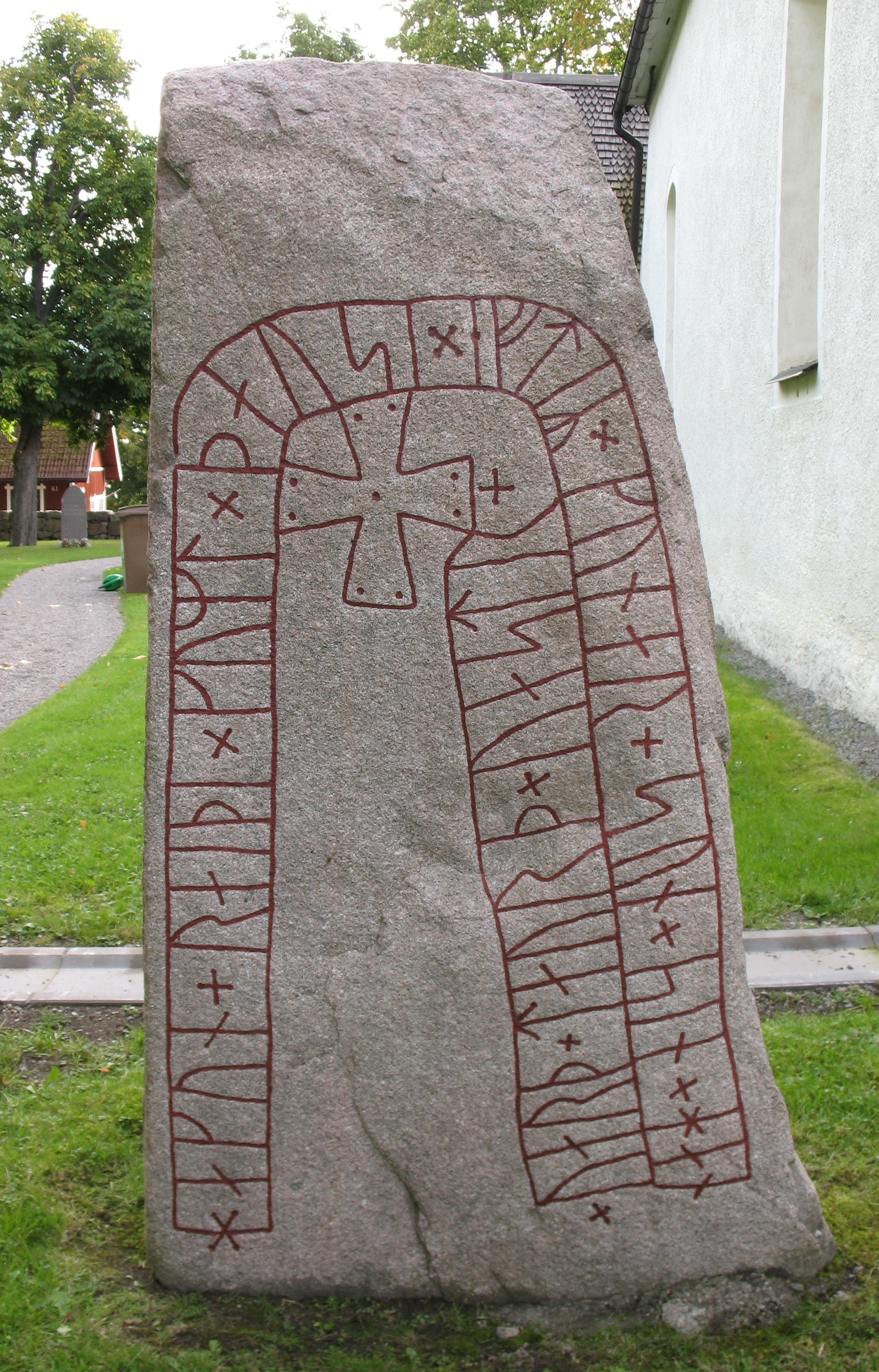 Runestone Ög Fv1970;310 at Kullerstad church in Östergötland.